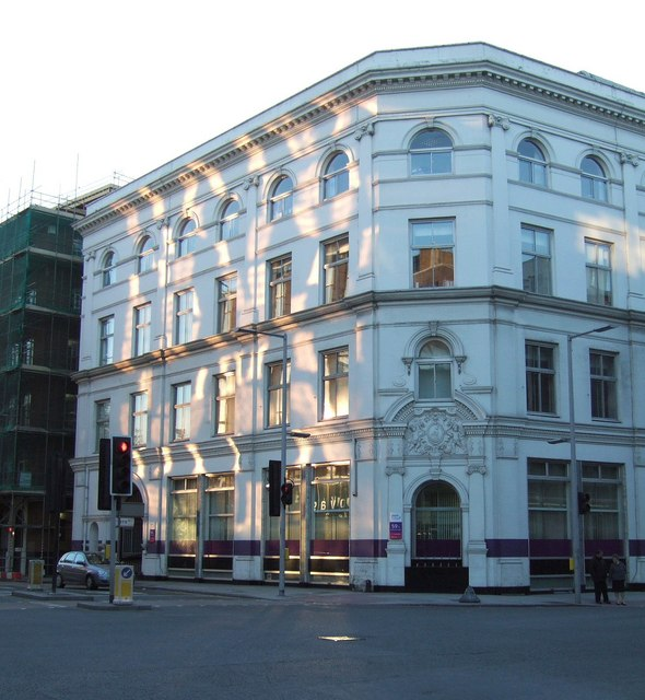 59½ Southwark Street One of London's odder addresses, occupied by London Councils, stands at the crossroads formed by Southwark Street (to the right of the building) and Southwark Bridge Road (the side dappled with sunlight reflected from Bridge Court opposite).